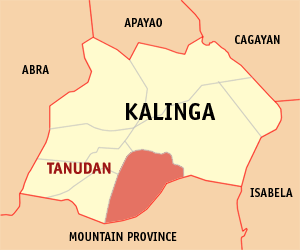 Map of Kalinga showing the location of Tanudan